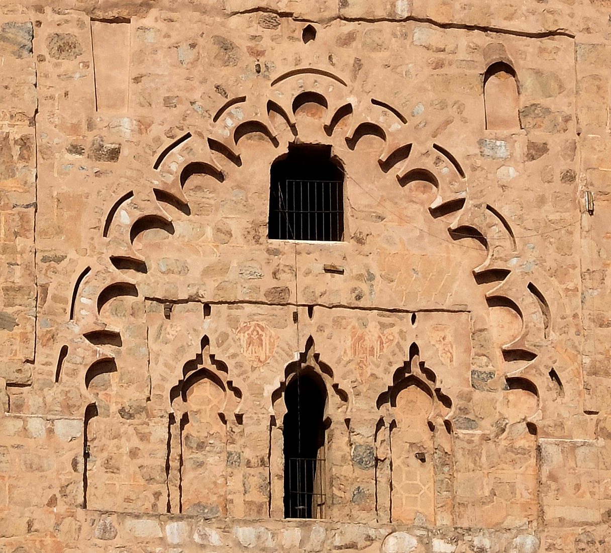 Decorative elements on the Koutoubia minaret's western facade, around the bottom windows.